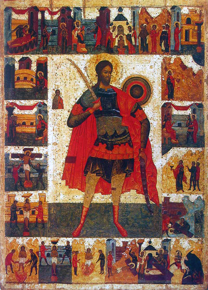 16th-century icon of St. Nicetas the Goth from the eponymous church in Yaroslavl